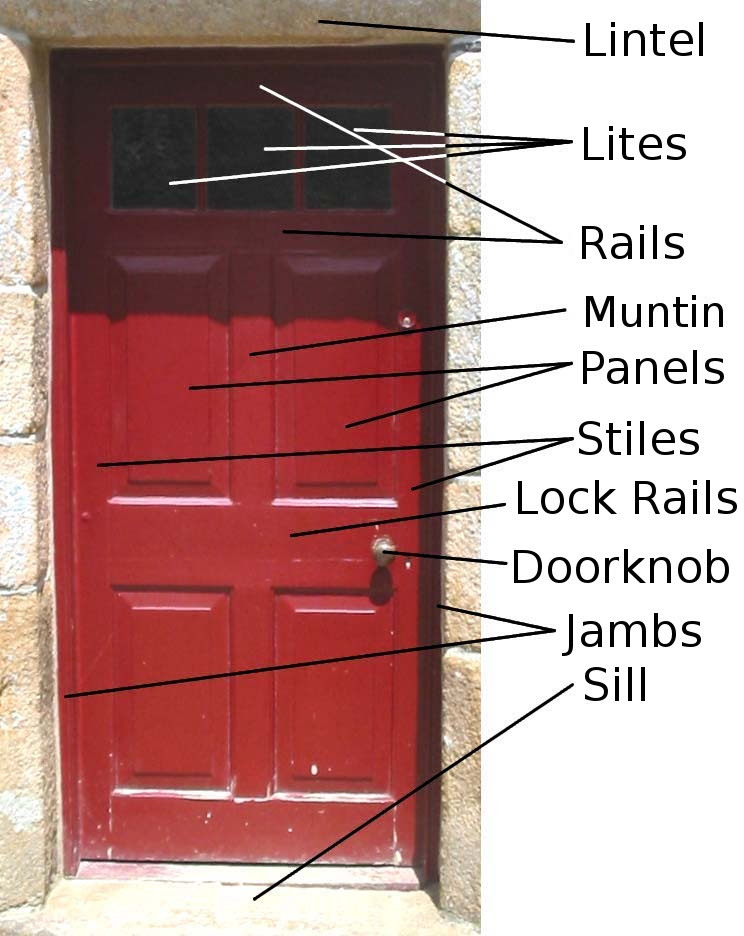 A diagram illustrating the components of a panel door. Based on :Image:Doorway Hamptonne in Jersey.jpg by Man vyi, then cropped and labeled by me. Not labeled are the header and threshold, horizontal members of the doorframe above and below the door.